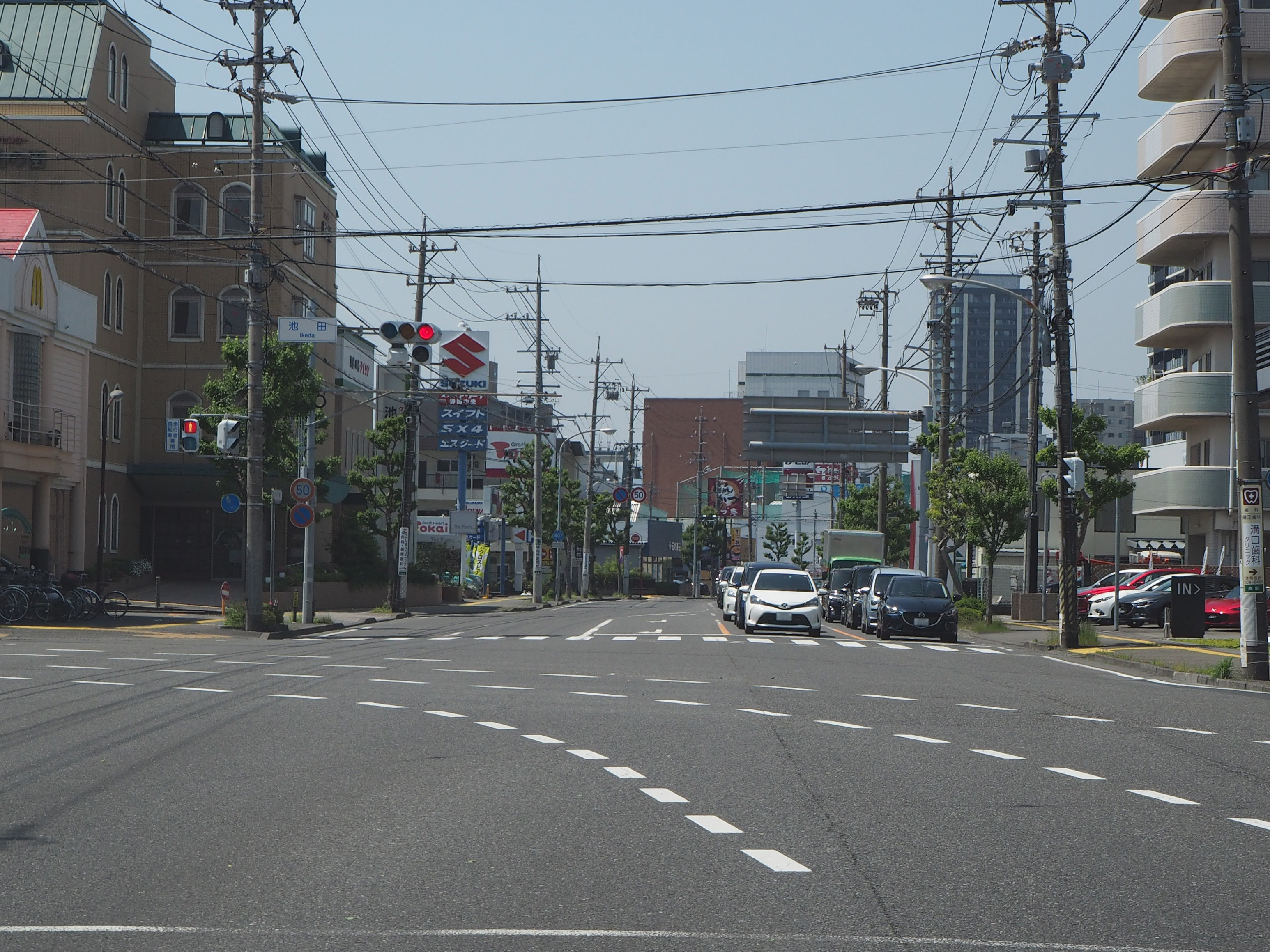 Shizuoka prefectural road Route 407